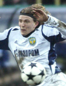 Syarhey Yaskovich in action for FC Tom